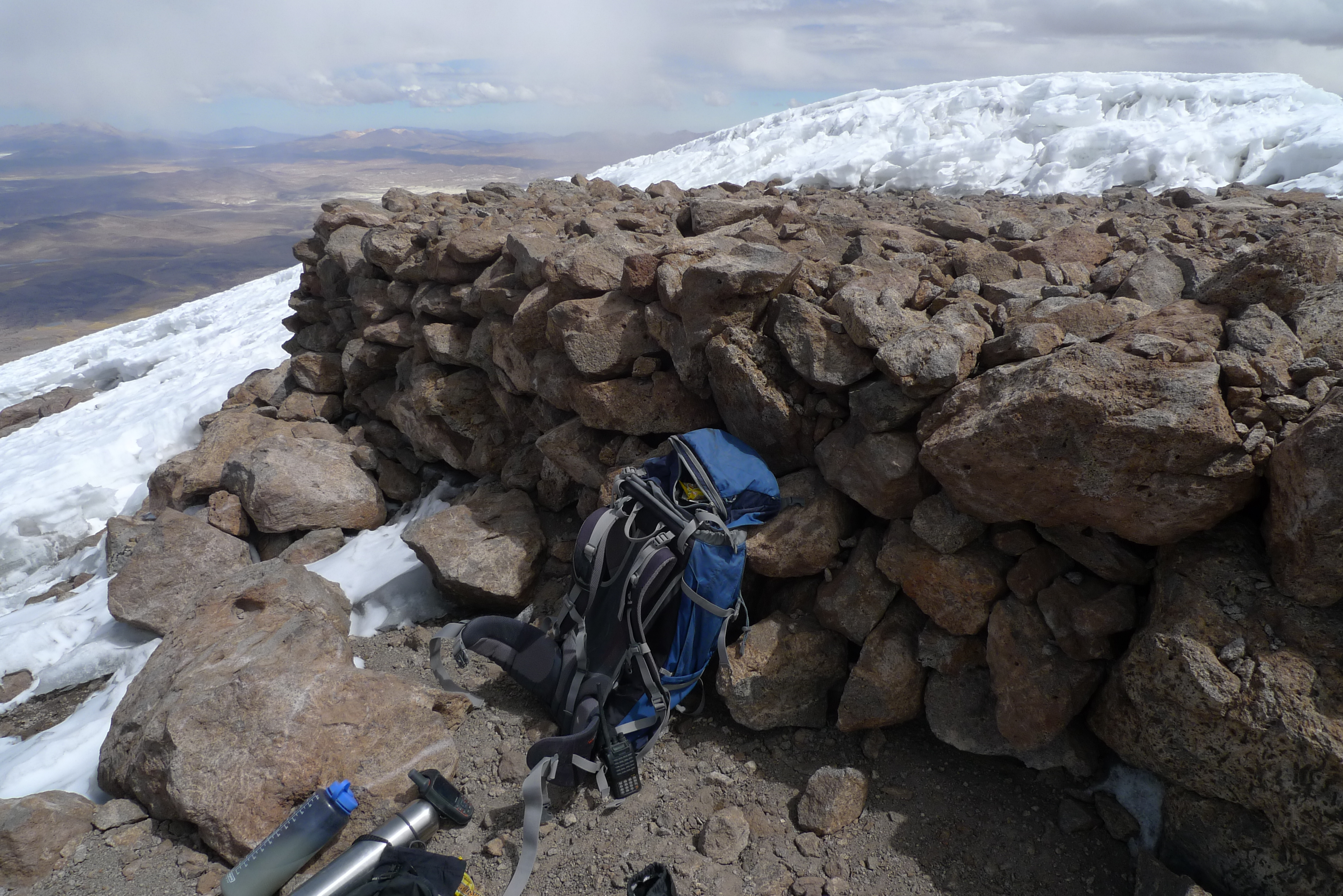 Rock platform at 6017m at the top of Capurata